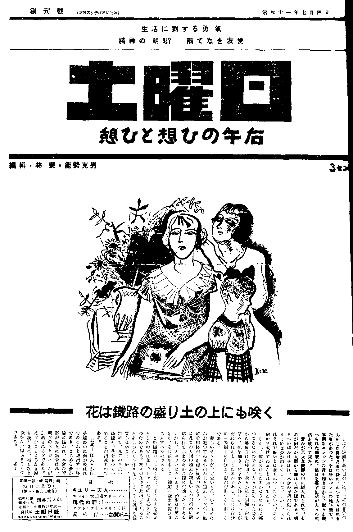 First issue of Doyobi Newspaper (July 4, 1936). Illustration by Kenzo Itani (1902～1970) and forword by Masakazu Nakai (1900～1952).